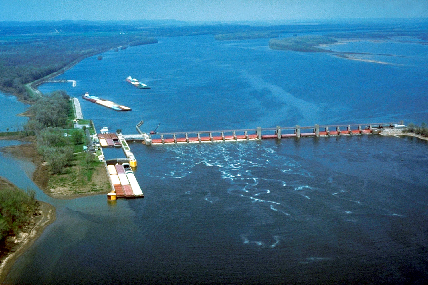 Lock and Dam number 25 on the Mississippi River near Winfield, Missouri, USA. View is upriver to the north.